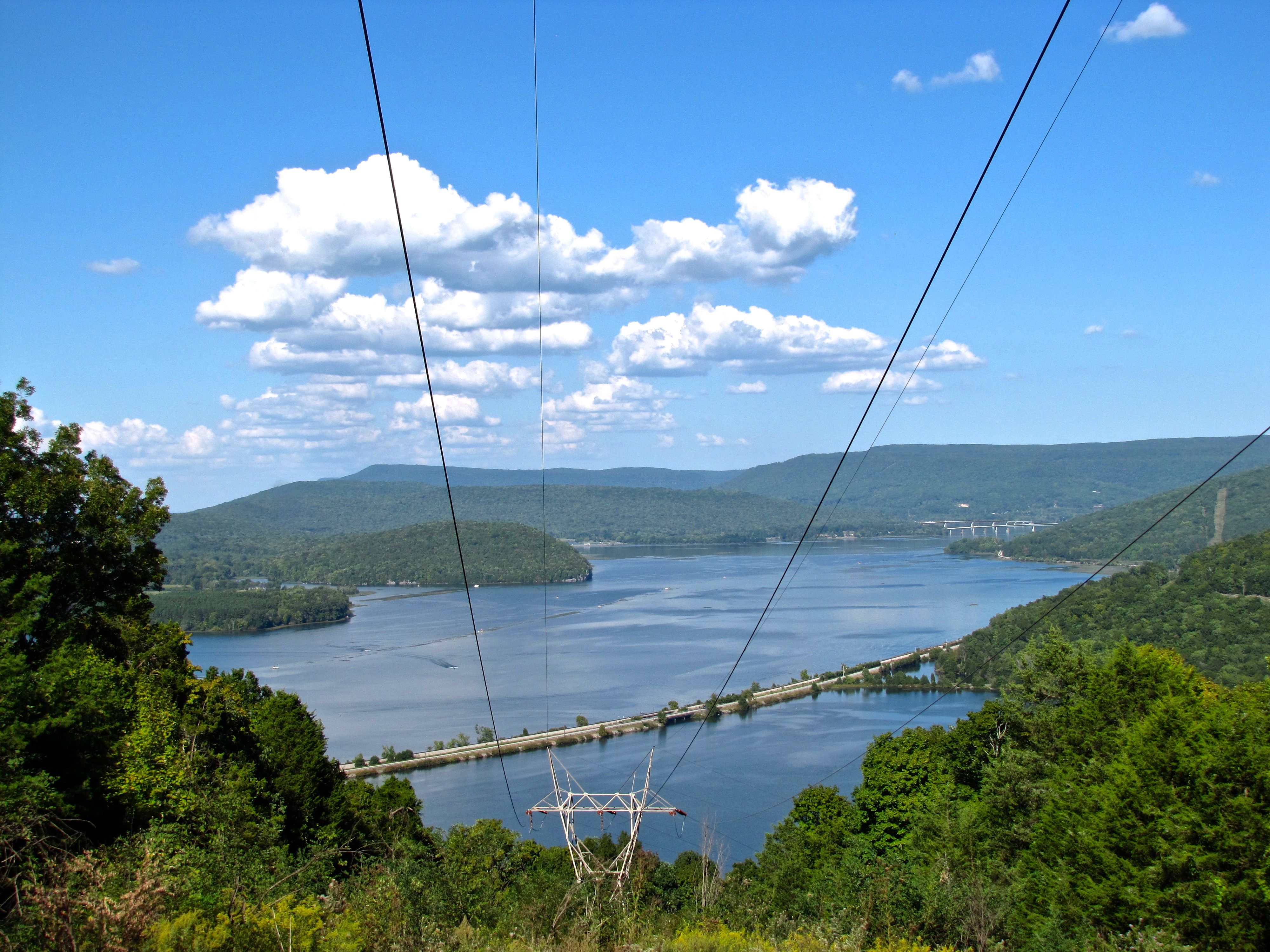 Nickajack Lake in Marion County, Tennessee, United States, viewed from Tennessee State Route 377 near the top of the Cumberland Plateau. Tennessee State Route 156 crosses the causeway below.